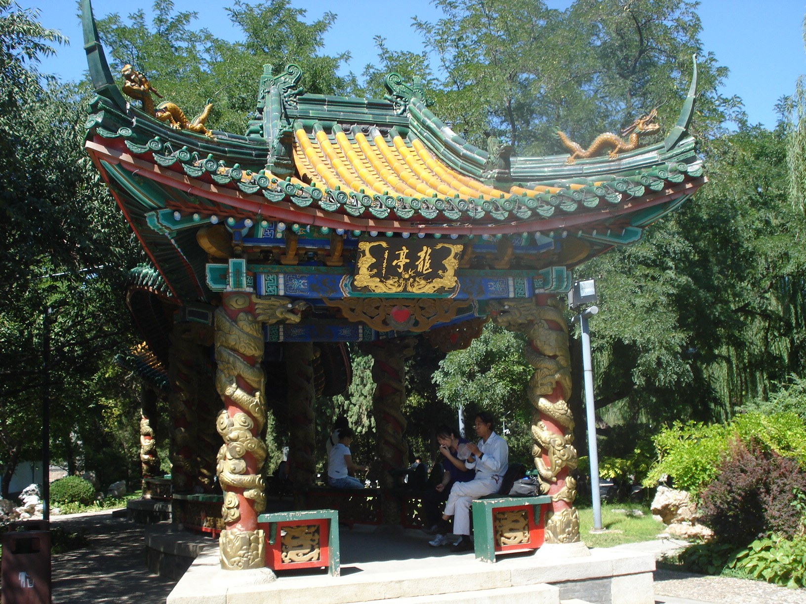 The Longtan Park in Beijing.